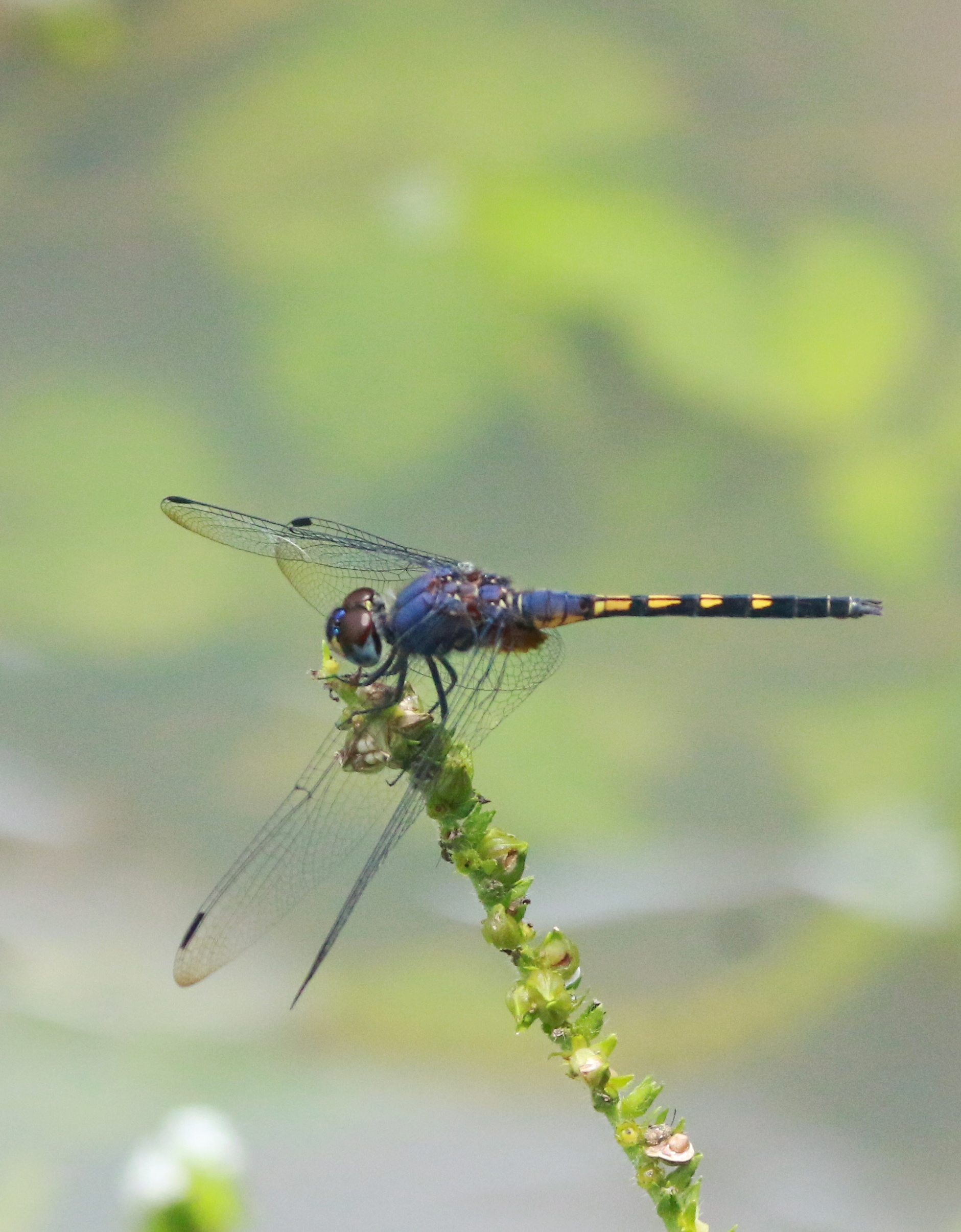 Trithemis festiva, sub-adult male,Black Stream Glider